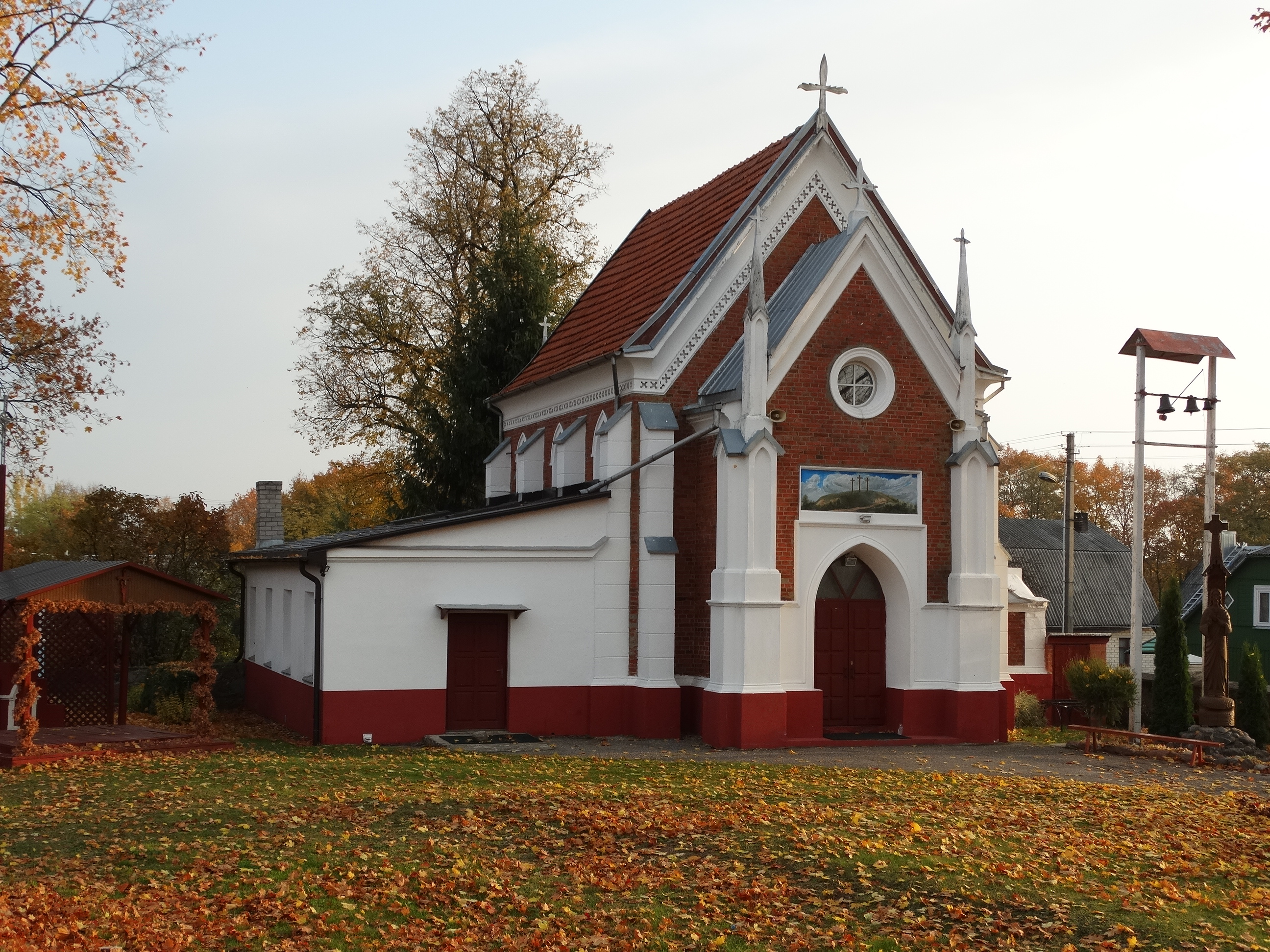 Gauronsky family chapel, Alvitas, Vilkaviškis District, Lithuania